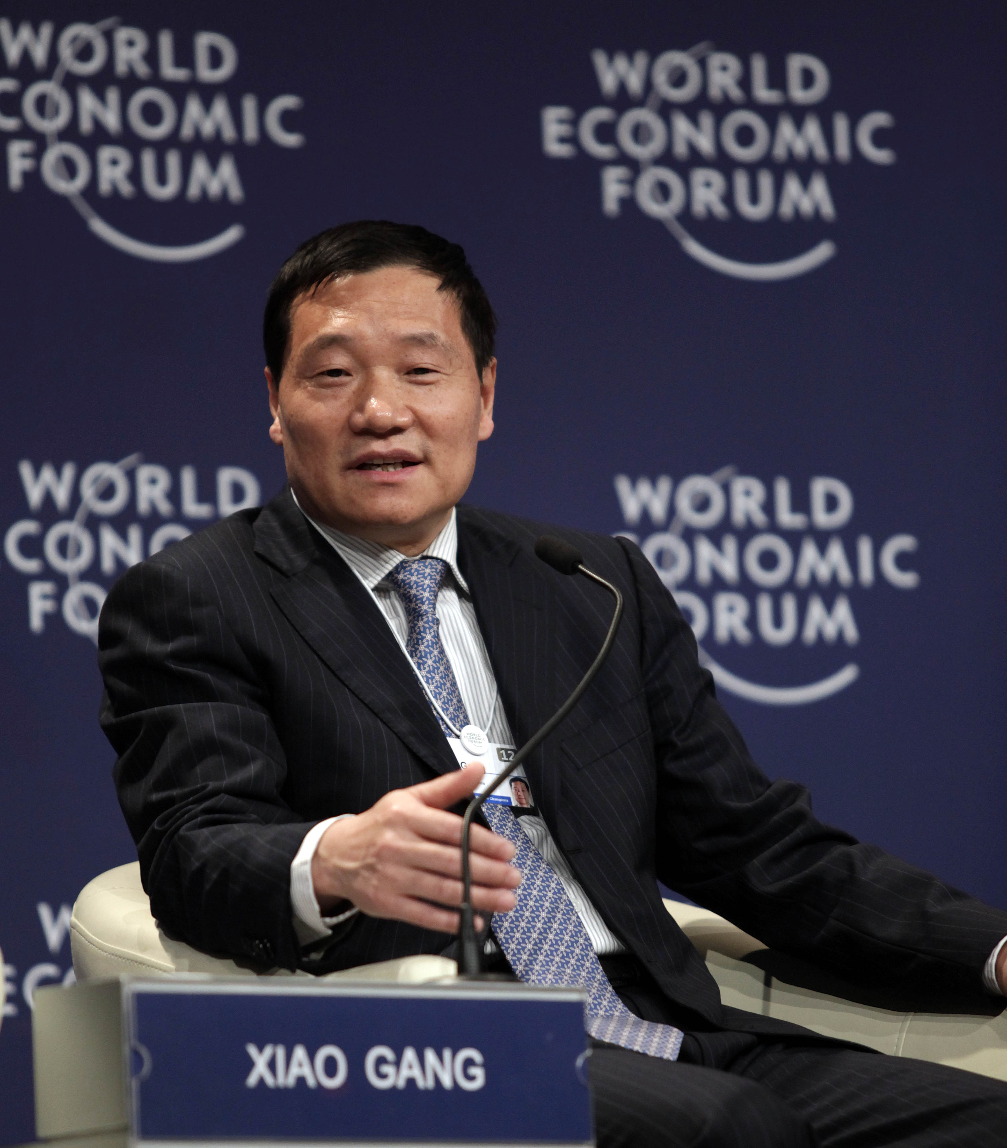 Xiao Gang, Chairman, Bank of China, People's Republic of China at the Annual Meeting of the New Champions in Tianjin, China 2012